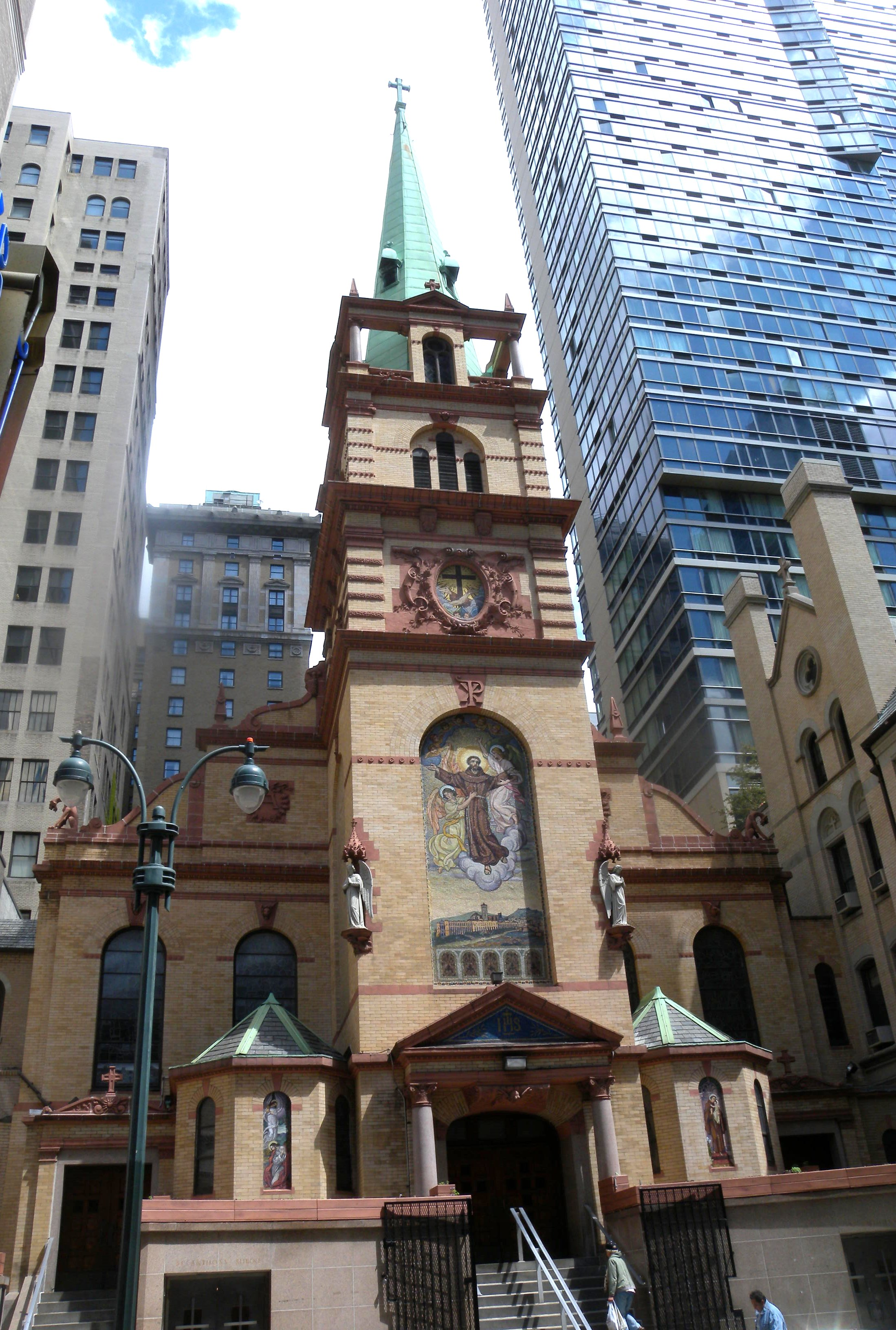 Looking north across 31st on a partly sunny midday.